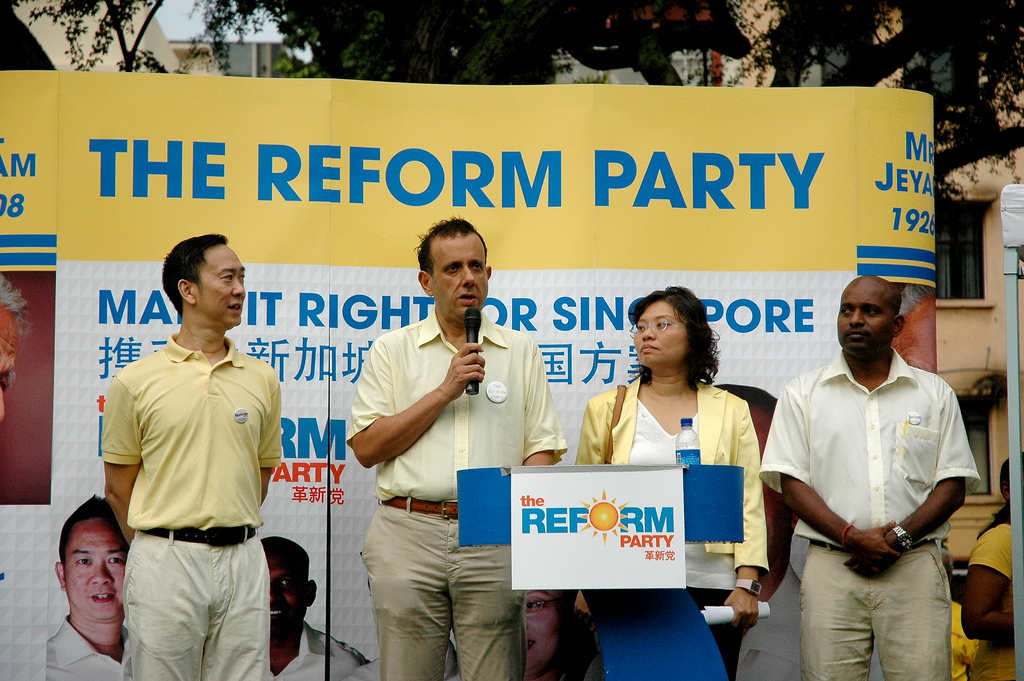 Kenneth Jeyaretnam, the Secretary-General of the Reform Party, speaking during a rally at Speakers' Corner, Singapore. He is flanked by Alec Tok (left) and Hazel Poa (right), and an unidentified Indian gentleman. Poa resigned from the Reform Party before the 2011 general election and stood as a National Solidarity Party candidate instead.